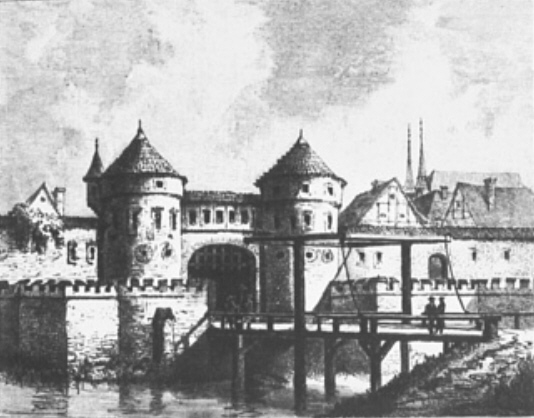 The Spandauer Tor, a medieval town gate of Berlin, in 1450